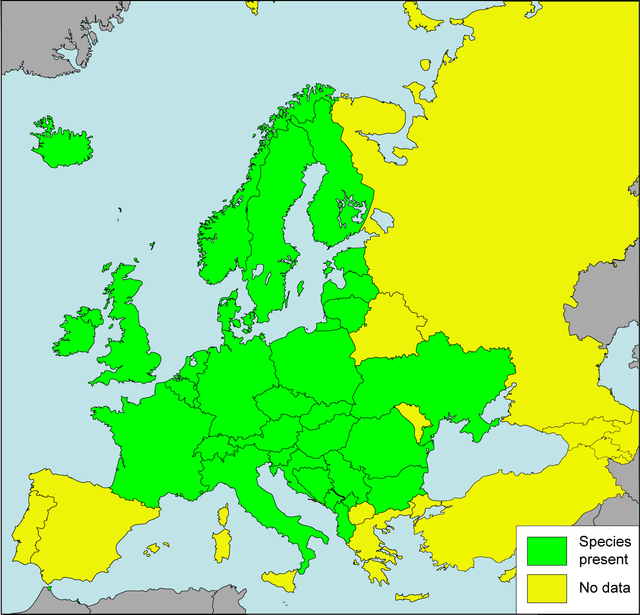 Arianta arbustorum, pulmonate land snail species: presence in European countries based upon data from: Arianta arbustorum